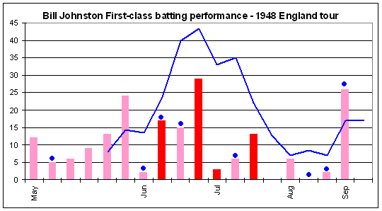 FC batting chart for Bill Johnston (cricketer) during the 1948 tour of England. Blue line is an average for five most recent innings, blue dots are not outs. Bars are runs scored. Pink for FC, red for Tests